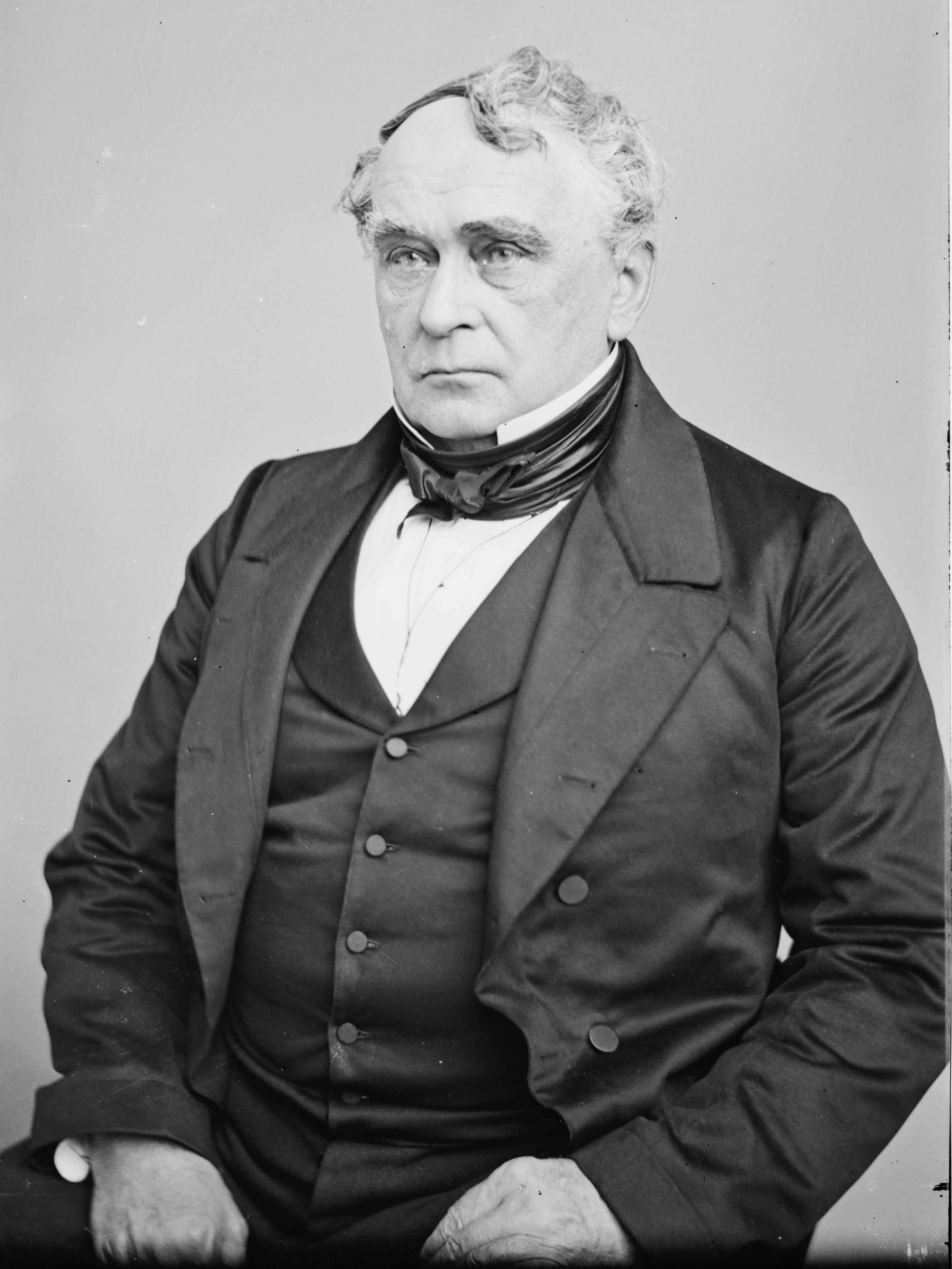 Francis Lieber. Library of Congress description: "Prof. Frances Lieber".